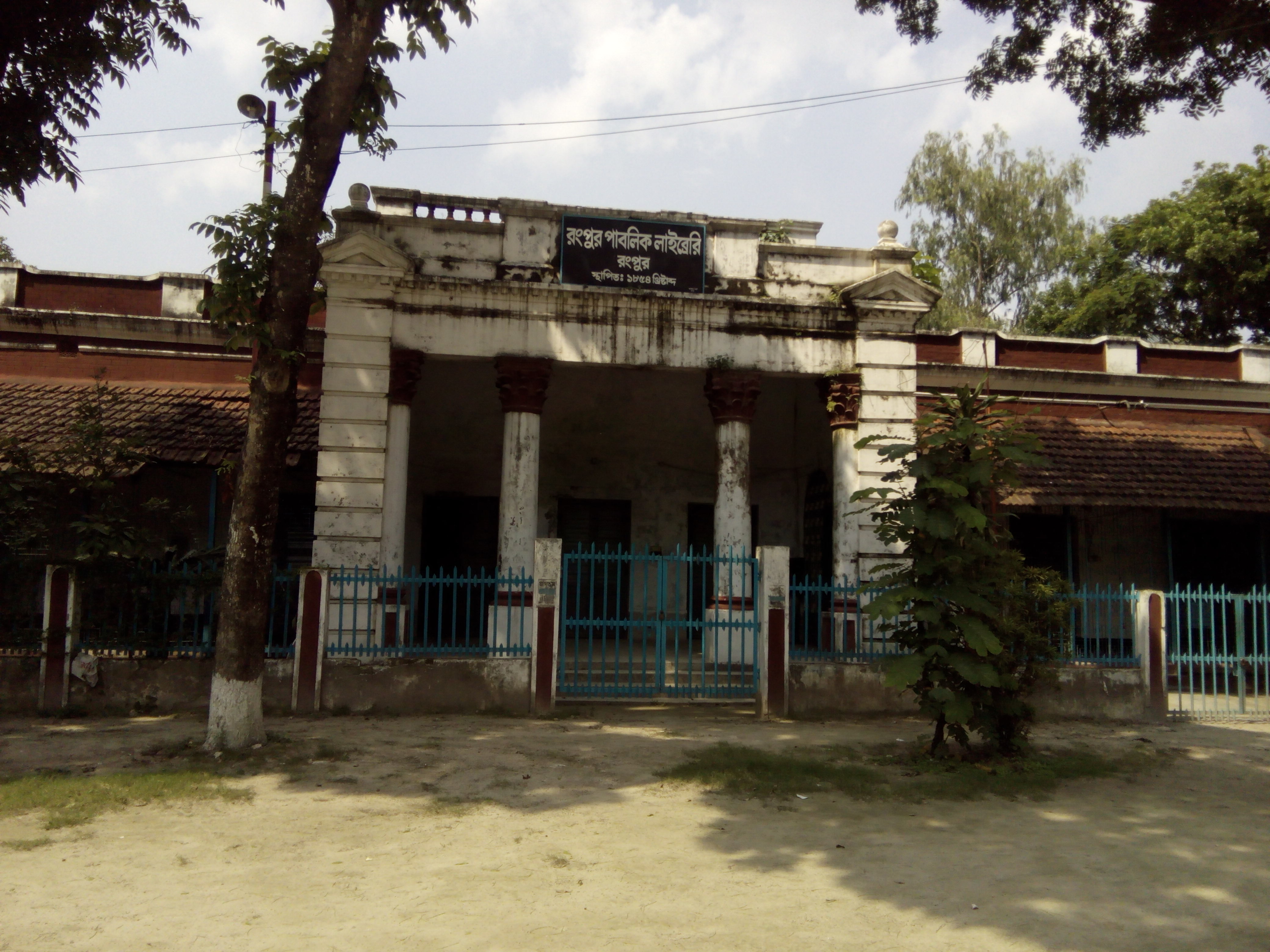 Rangpur Public library